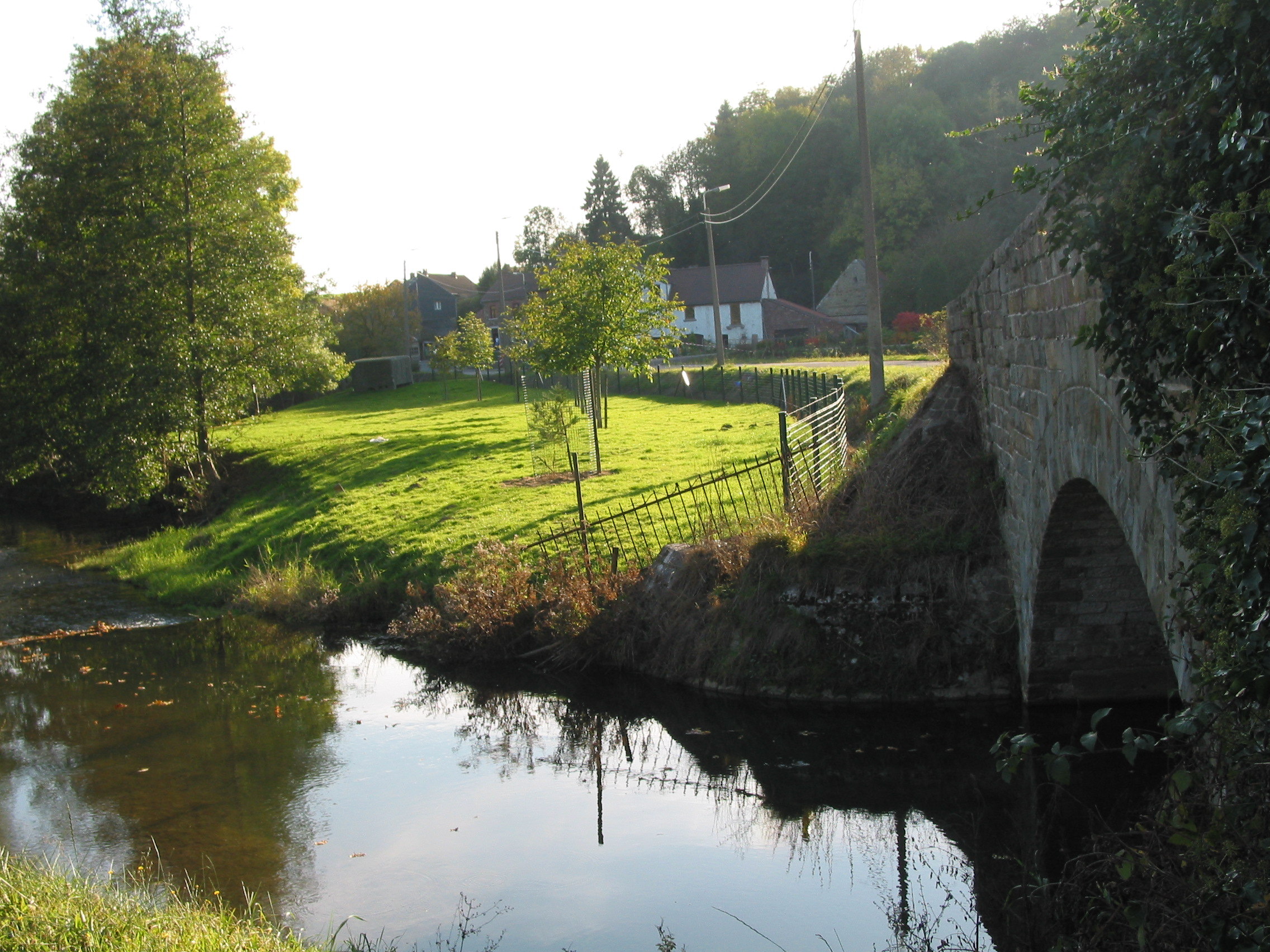 Fallais (Belgium), rue Alice de Donéa - The bridge on the Mehaigne river.